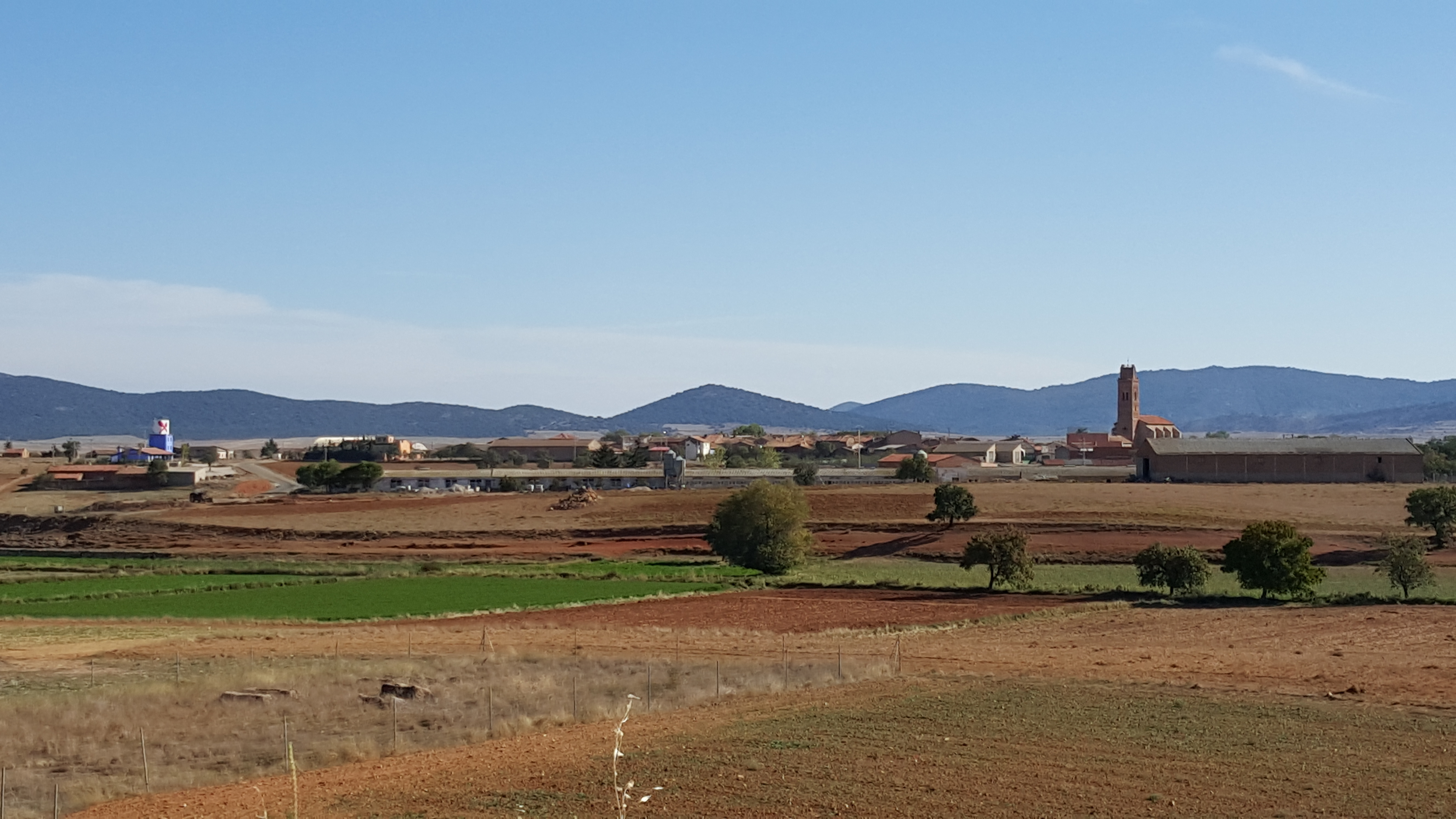 Romanos, Zaragoza, Spain